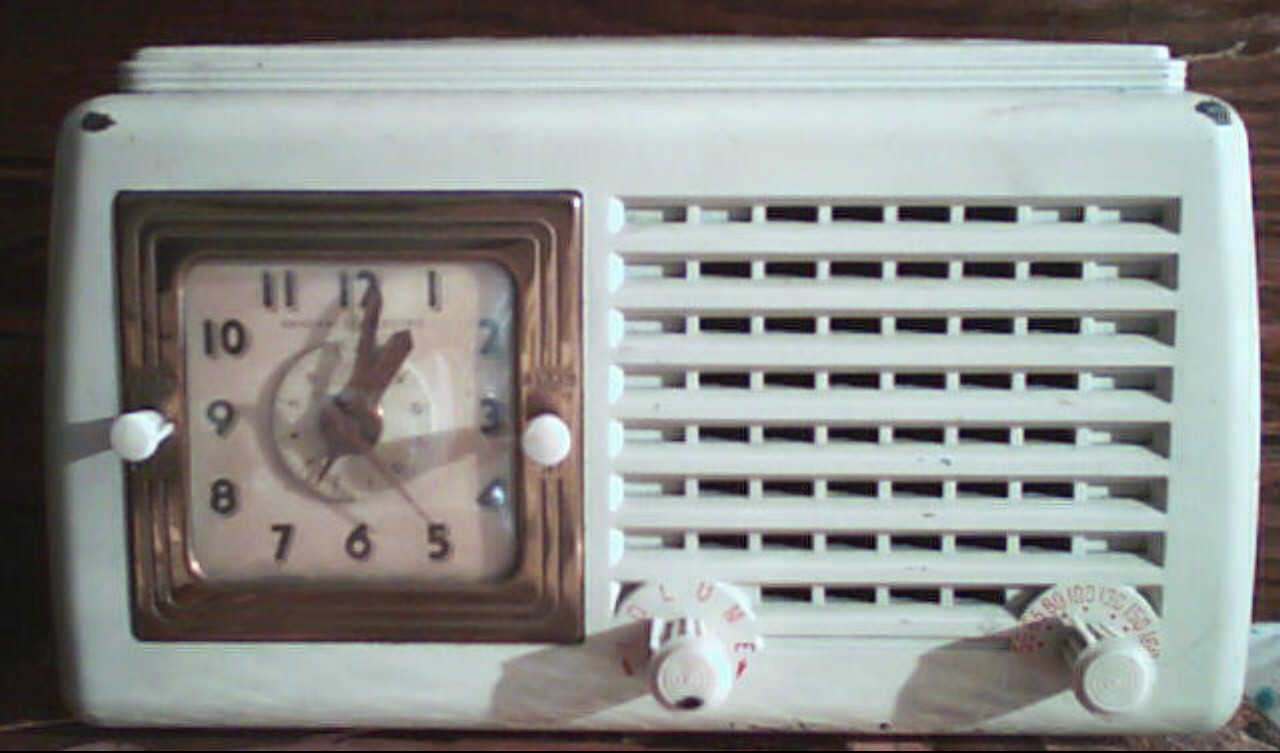 Vintage clock radio